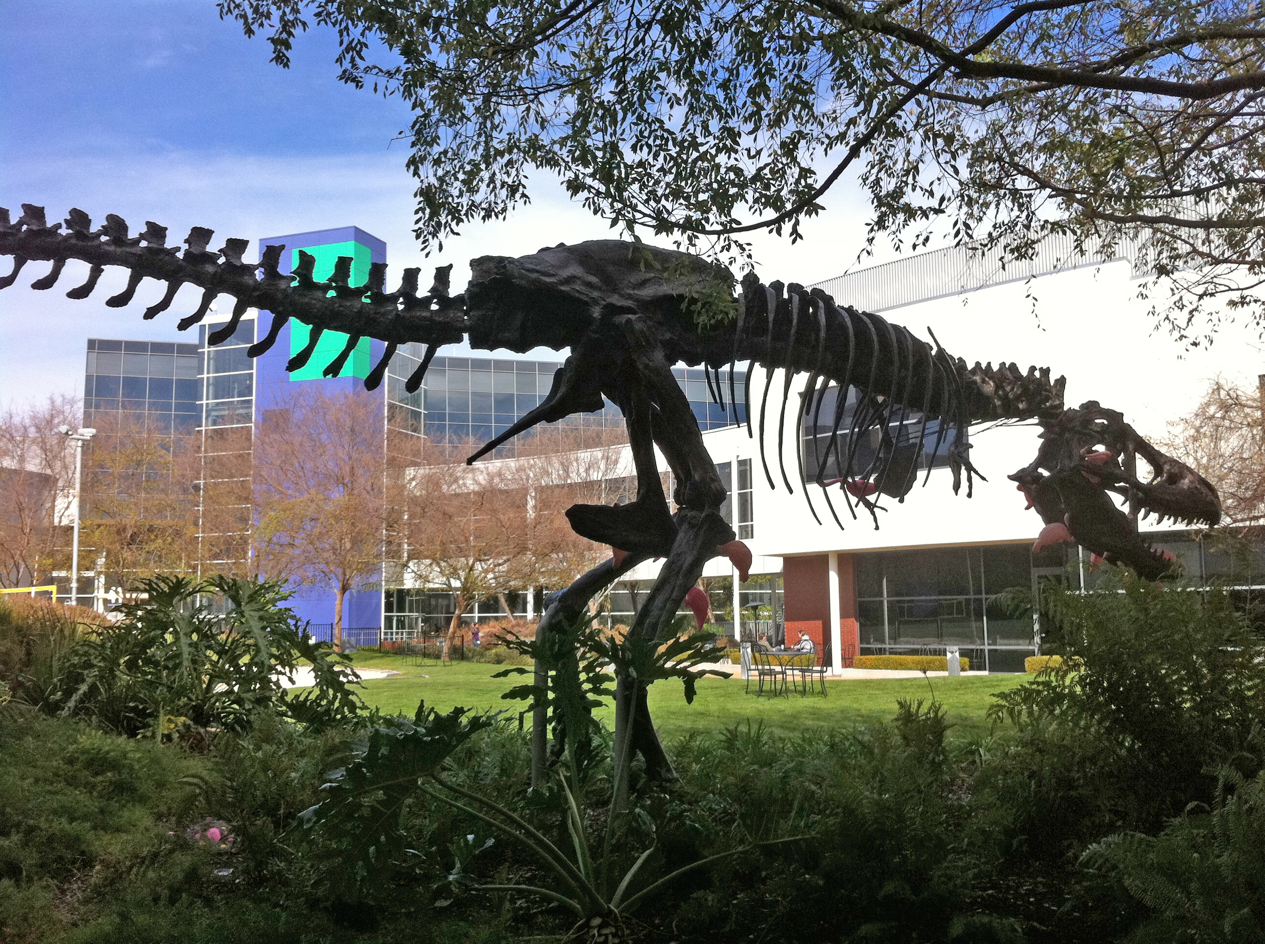 Google Mountain View campus dinosaur skeleton 'Stan'